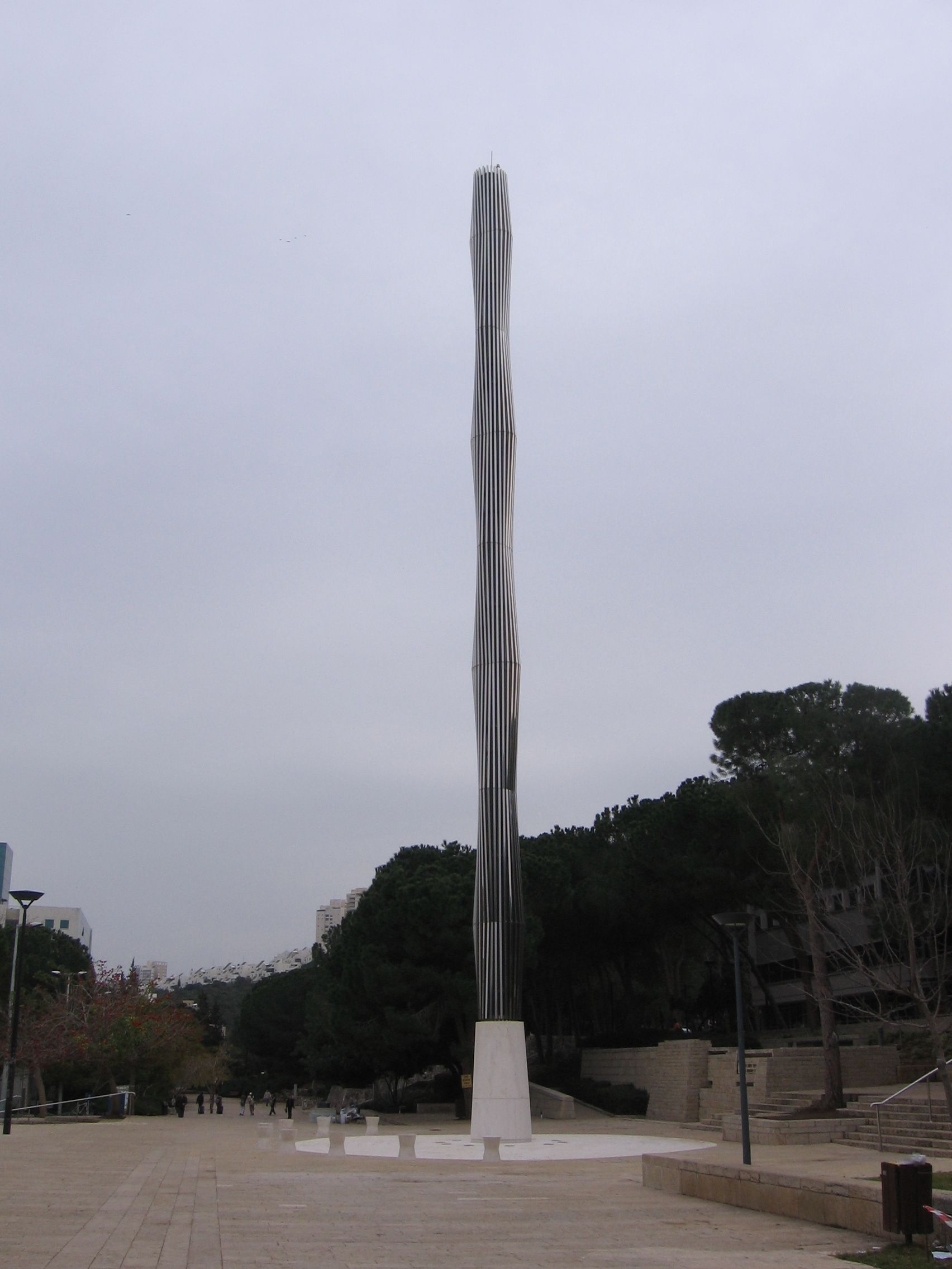 The Technion Obelisk at the Technion – Israel Institute of Technology. The Technion Obelisk is a kinetic sculpture designed by Spanish architect Santiago Calatrava.